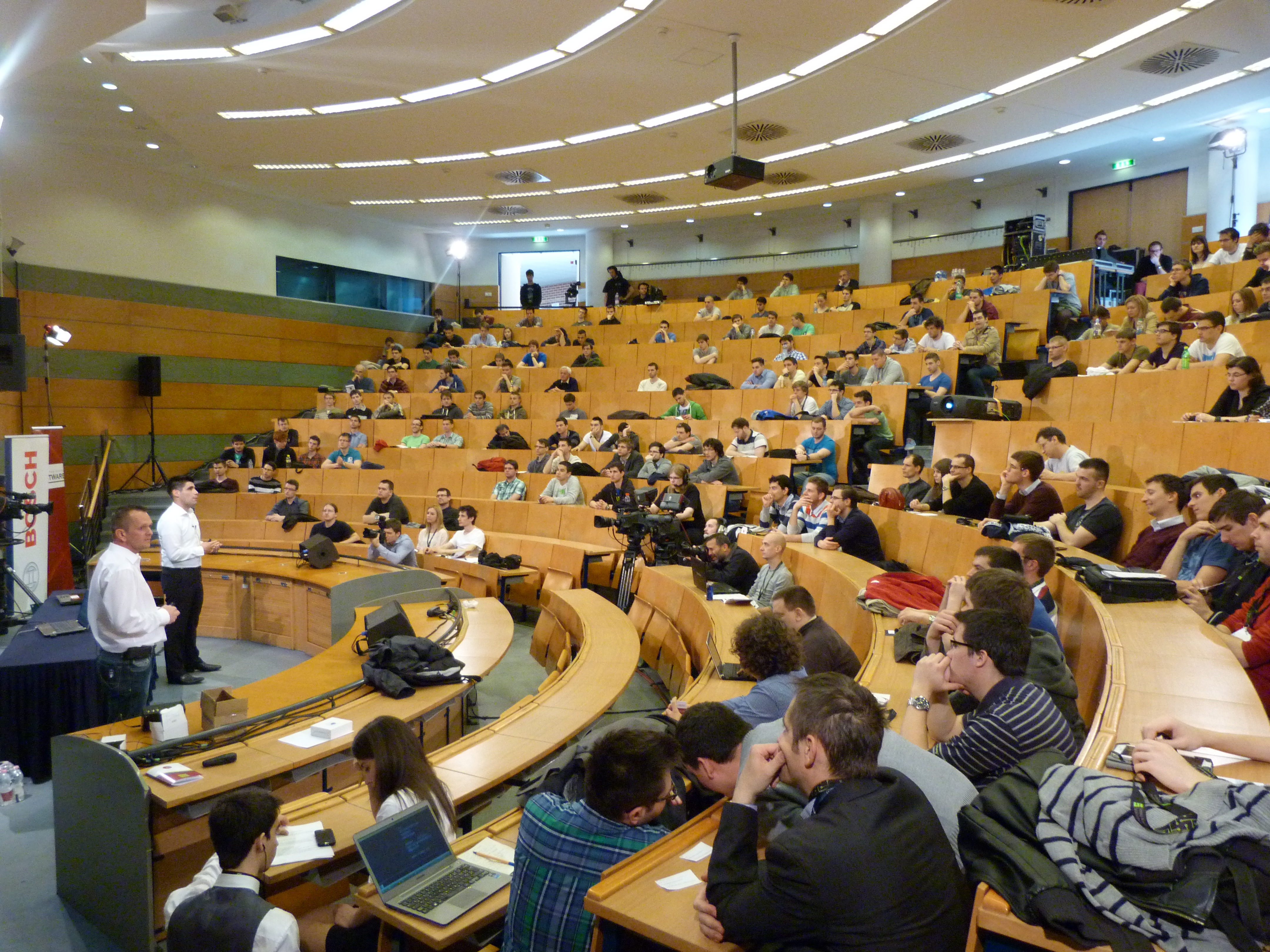 XI. Simonyi Conference – 2014.04.15 Live on the 15th of April, 2014. Budapest, Budapesti Műszaki Egyetem.I. building, IB028 hall. The Simonyi Conference is the greatest student organized professional event of both the Vocational College and the Faculty of Electric Engineering and Informatics. Simonyi Károly (father of Charles SimonyI) worked at the Budapesti Műszaki Egyetem, his lectures and engagement for engineering science was outstanding. Detailes in Hungarian. ©© Derzsi Elekes Andor, Budapest, 2014, You are authorised to use these photos and vids under Creative Commons – even for commercial, for profit purposes. Photos must be attributed to Derzsi Elekes Andor. All of the photos and vids in the Metapolisz DVD line are under Creative Commons and can be used even for commercial – for profit – purposes. Recommended Citation Derzsi Elekes Andor: Metapolisz DVD line Sources